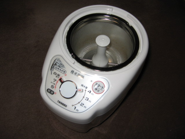 A compact rice polisher for home use. This picture was taken by myself.